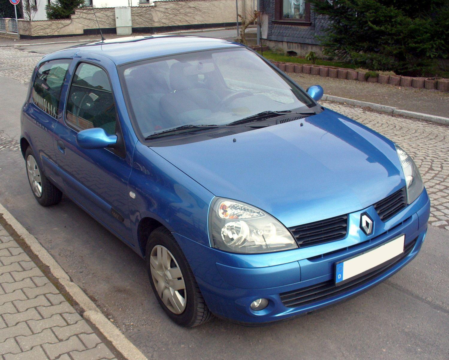 Renault Clio II Phase III